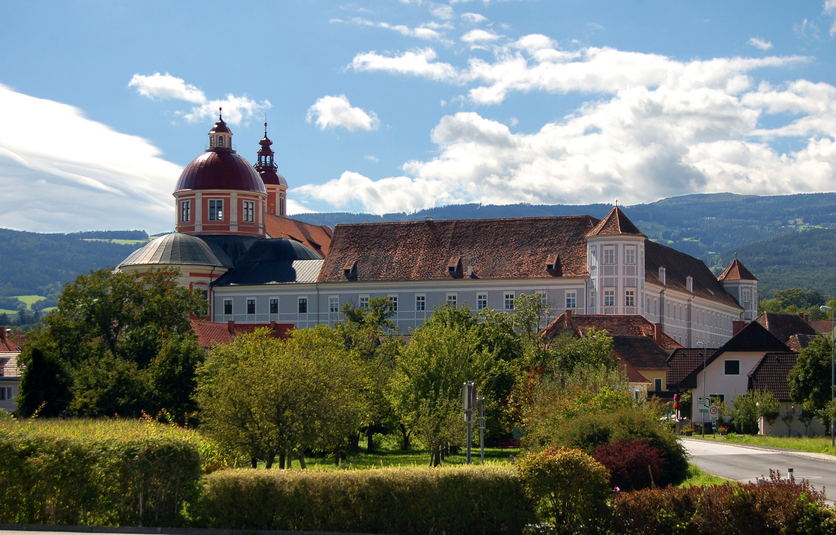 Chorherrenstift Pöllau, a former monastery in Pöllau, Styria.